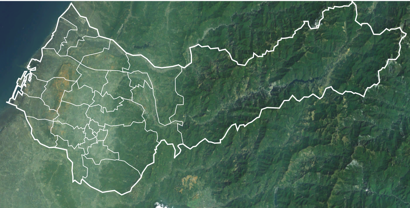 Taichung City in the screenshot of Worldwind. It's also derived from File:Taichung districts blank.svg.